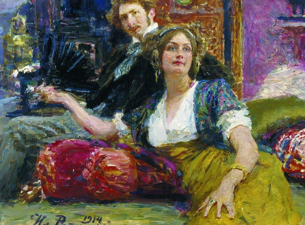 Portrait of poet, prose writer, translator and dramatist Sergei Mitrofanovich Gorodetsky with his wife.